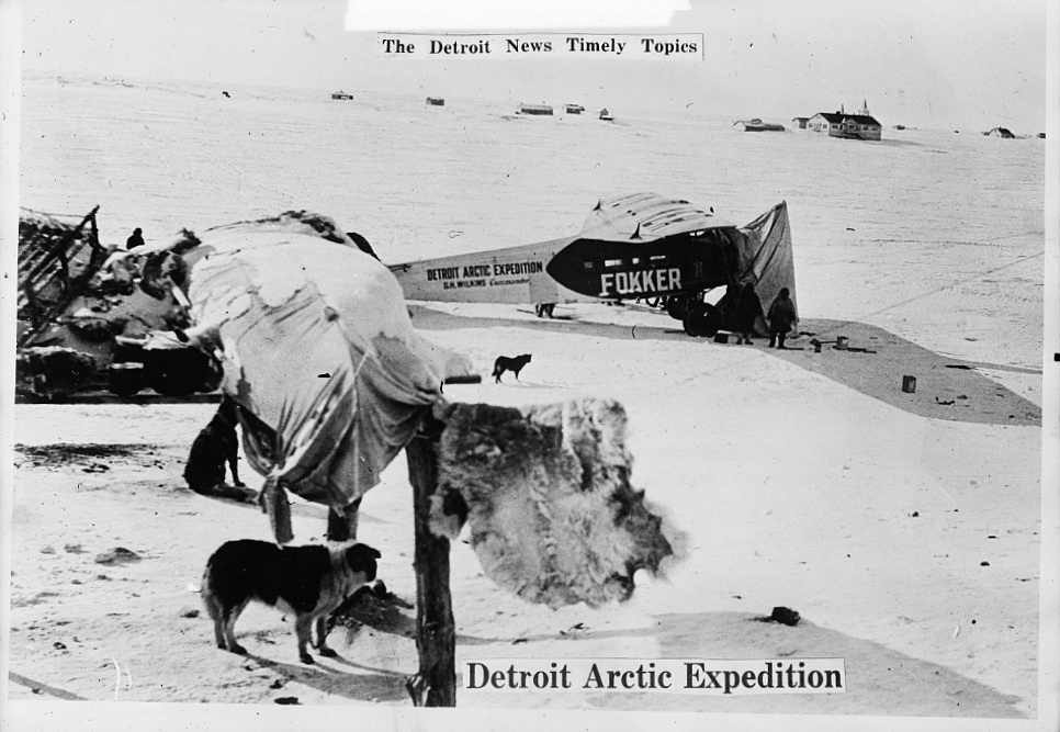 Arctic expedition of George Hubert Wilkins (1888-1958), 1926 (Detroit Arctic Expedition) TITLE: The Detroit News timely topics. Detroit Arctic Expedition CALL NUMBER: LC-D420-3191 [P&P] REPRODUCTION NUMBER: LC-D420-3191 (b&w glass neg.) MEDIUM: 1 negative : glass ; 5 x 7 in. CREATED/PUBLISHED: [1926] RELATED NAMES: Detroit Publishing Co., publisher. NOTES: Photograph of photographic print marked "Detroit News Timely Topics." Lettering on plane: Detroit Arctic Expedition/G.H. Wilkins, Commander. Detroit Publishing Co. no. K 3191. Gift; State Historical Society of Colorado; 1949. SUBJECTS: Wilkins, George H. (George Hubert), Sir, 1888-1958. Detroit Arctic Expedition (1926). Discovery & exploration. Arctic regions. FORMAT: Dry plate negatives. Photographic prints Reproductions. PART OF: Detroit Publishing Company Photograph Collection REPOSITORY: Library of Congress Prints and Photographs Division Washington, D.C. 20540 USA DIGITAL ID: (digital file from intermediary roll film) det 4a28016 CARD #: det1994003114/PP